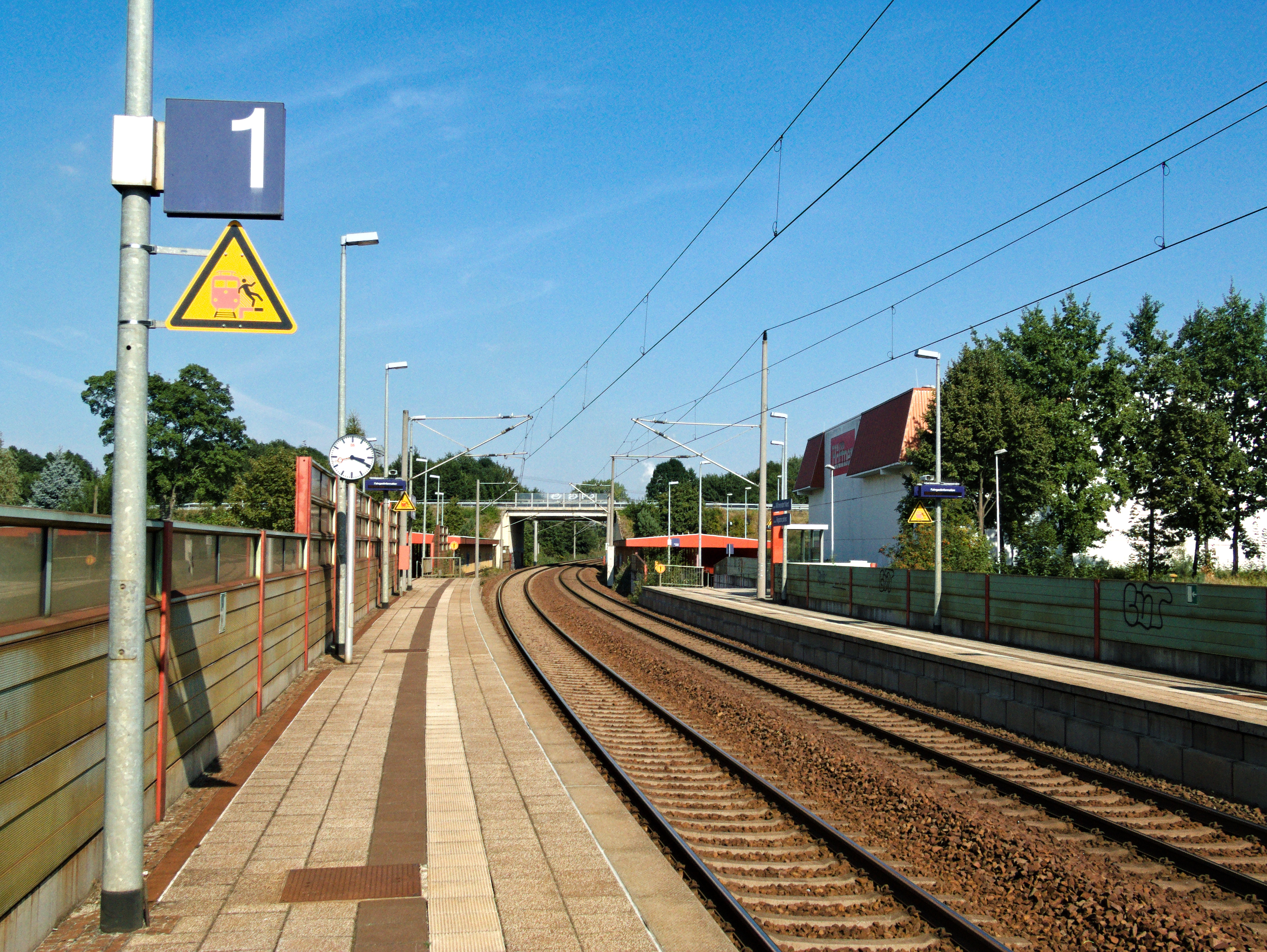 Train station "Cottbus-Willmersdorf Nord". Platforms 1 is for traffic in the direction of Cottbus, whereas platform 2 is served by stopping trains headed for Guben and Frankfurt (Oder).